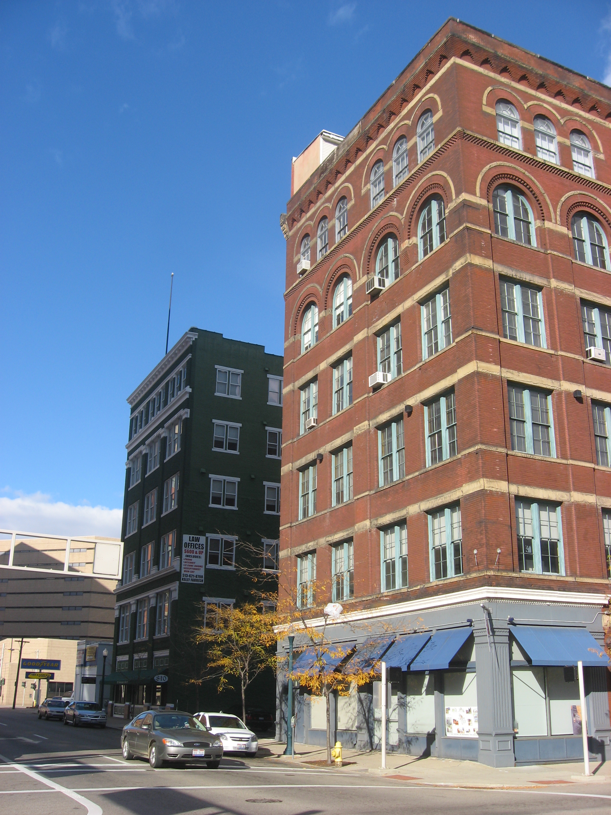 Buildings on the eastern side of the 800 block of Sycamore Street in downtown Cincinnati, Ohio, United States. This block is part of the Cincinnati East Manufacturing and Warehouse District, a historic district that is listed on the National Register of Historic Places.